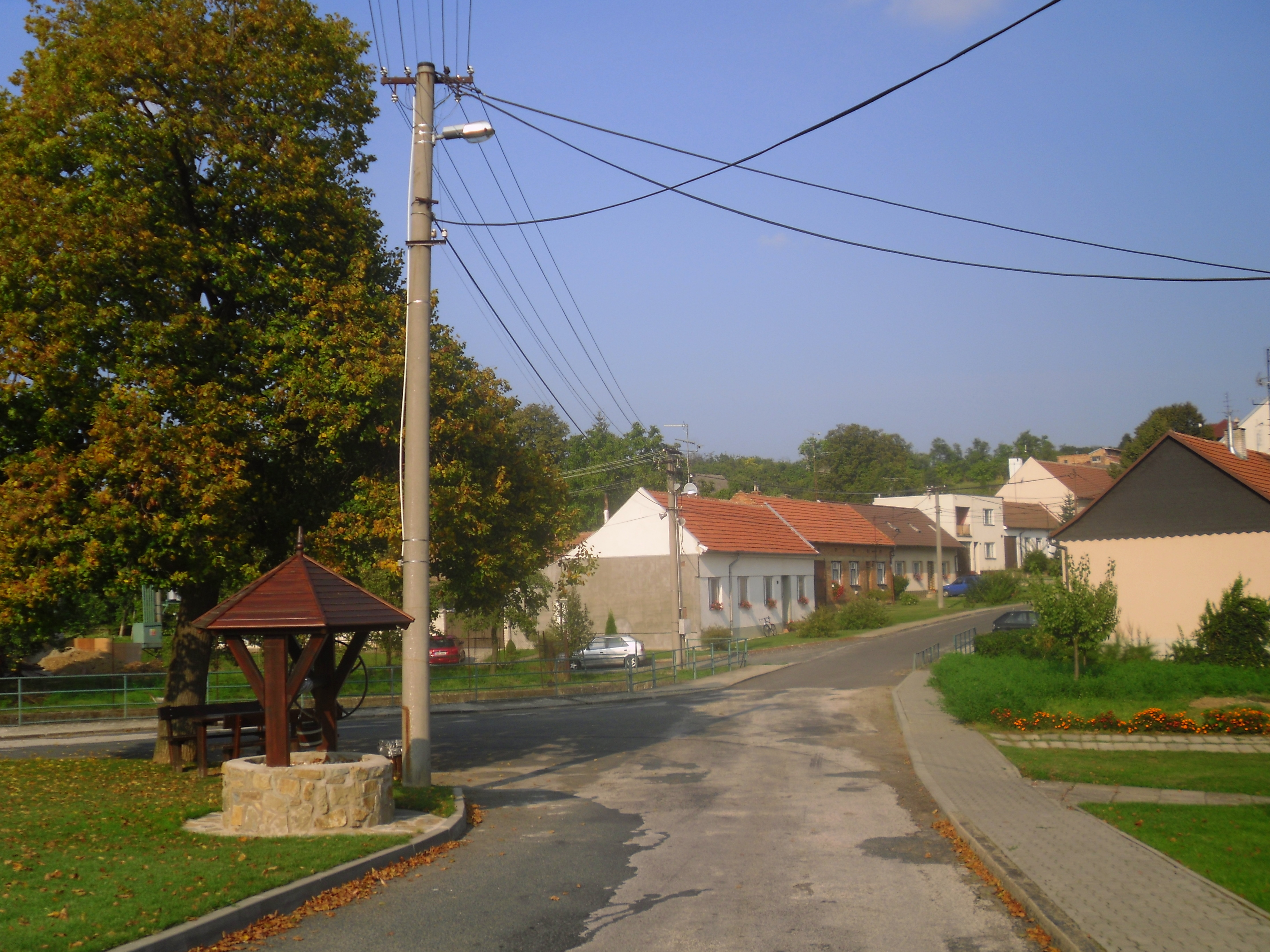 Labuty, Hodonín district, Czech Republic - village centre